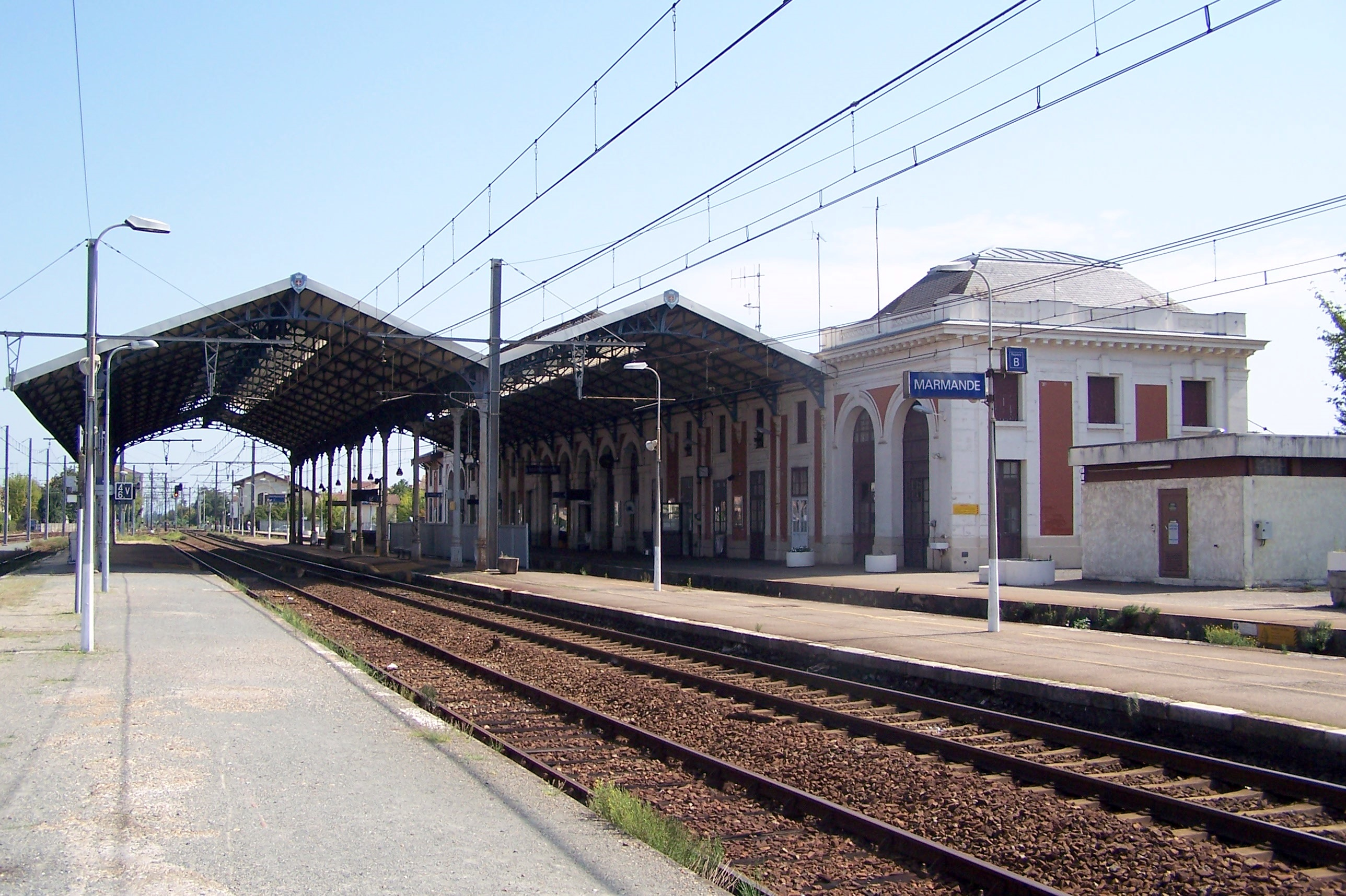 Train station of Marmande (Lot-et-Garonne, France)